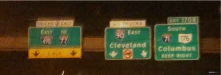 Near I-90 and I-71 Interchange in Cleveland, Ohio.